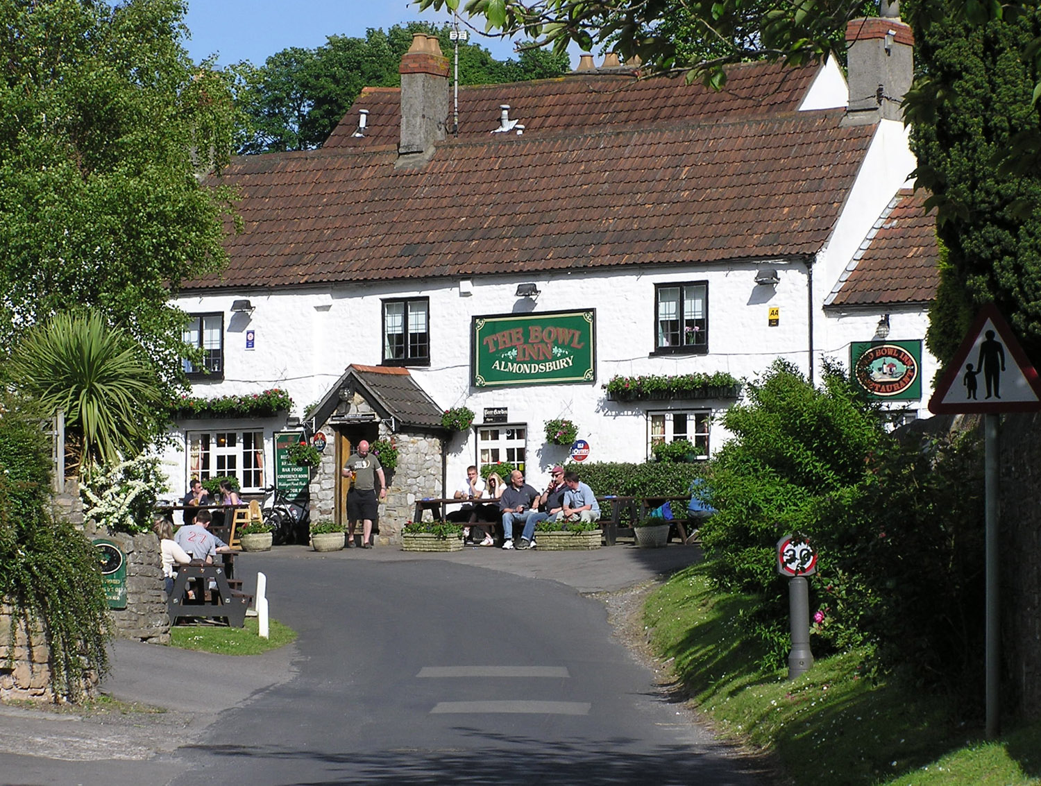 The Bowl Inn in Almondsbury. On the edge of the Severn Vale in lower Almondsbury, the Bowl Inn derives its name from the bowl shape of the land surrounding the Severn Estuary, which can be seen from the inn. Parts of this whitewashed stone inn were originally the three cottages erected in 1146 to house the monks building the adjacent church of St Mary the Virgin. The present building became a licensed inn in 1550. In the latter half of the seventeenth century it was used by the sheriffs of James ll to try supporters of the Duke of Monmouth.